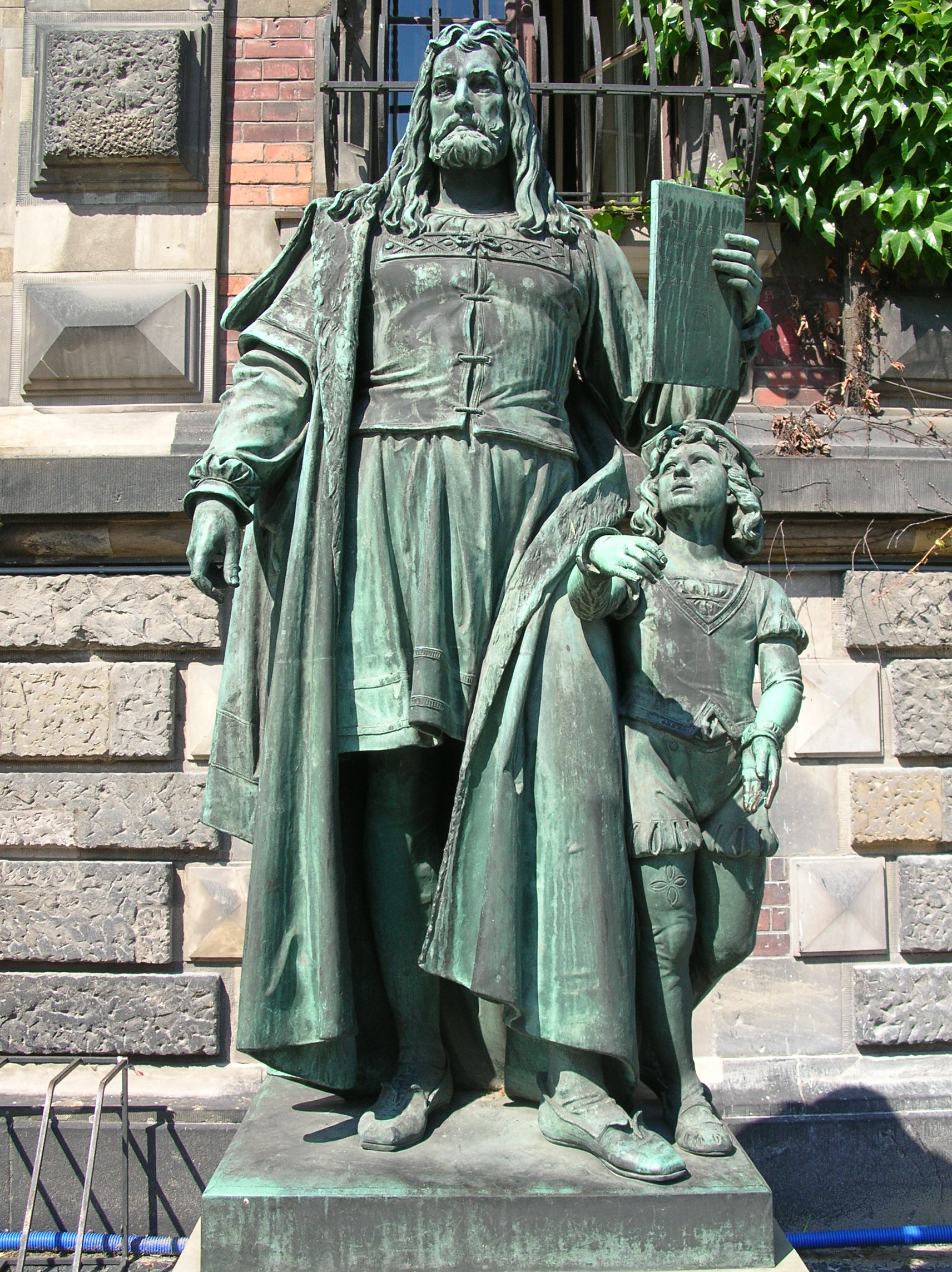 Monument of Albrecht Dürer by Robert Härtel (Haertel) in 1882. Bronse. National Museum in Wrocław.